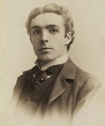 William Faversham (1868-1940), legendary movie and stage actor from England who made his name on Broadway